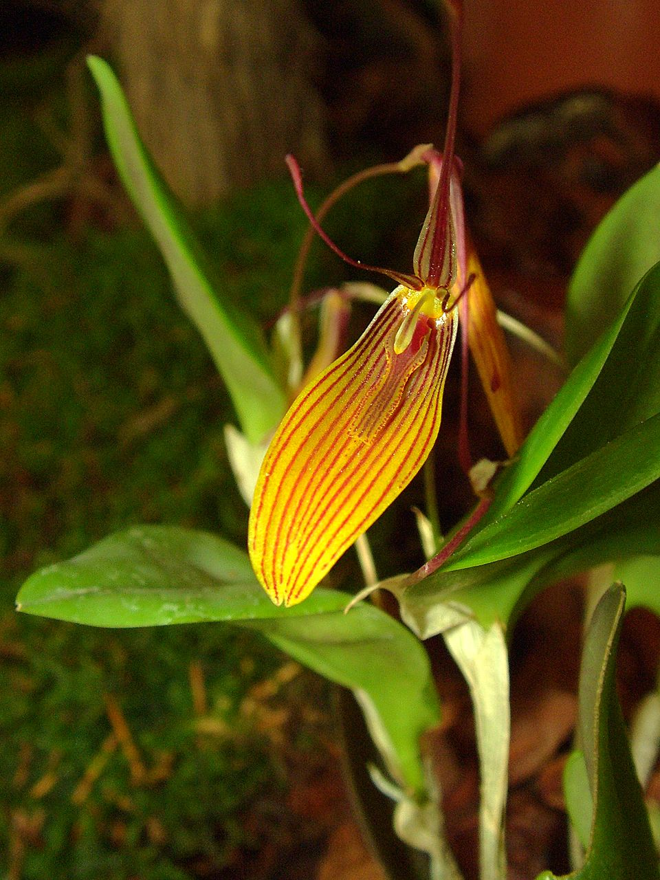 Restrepia brachypus - flower